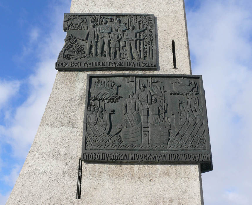 Bronze picture plates on the southern side of the World War II victory monument on Catherine hill, Veliky Novgorod